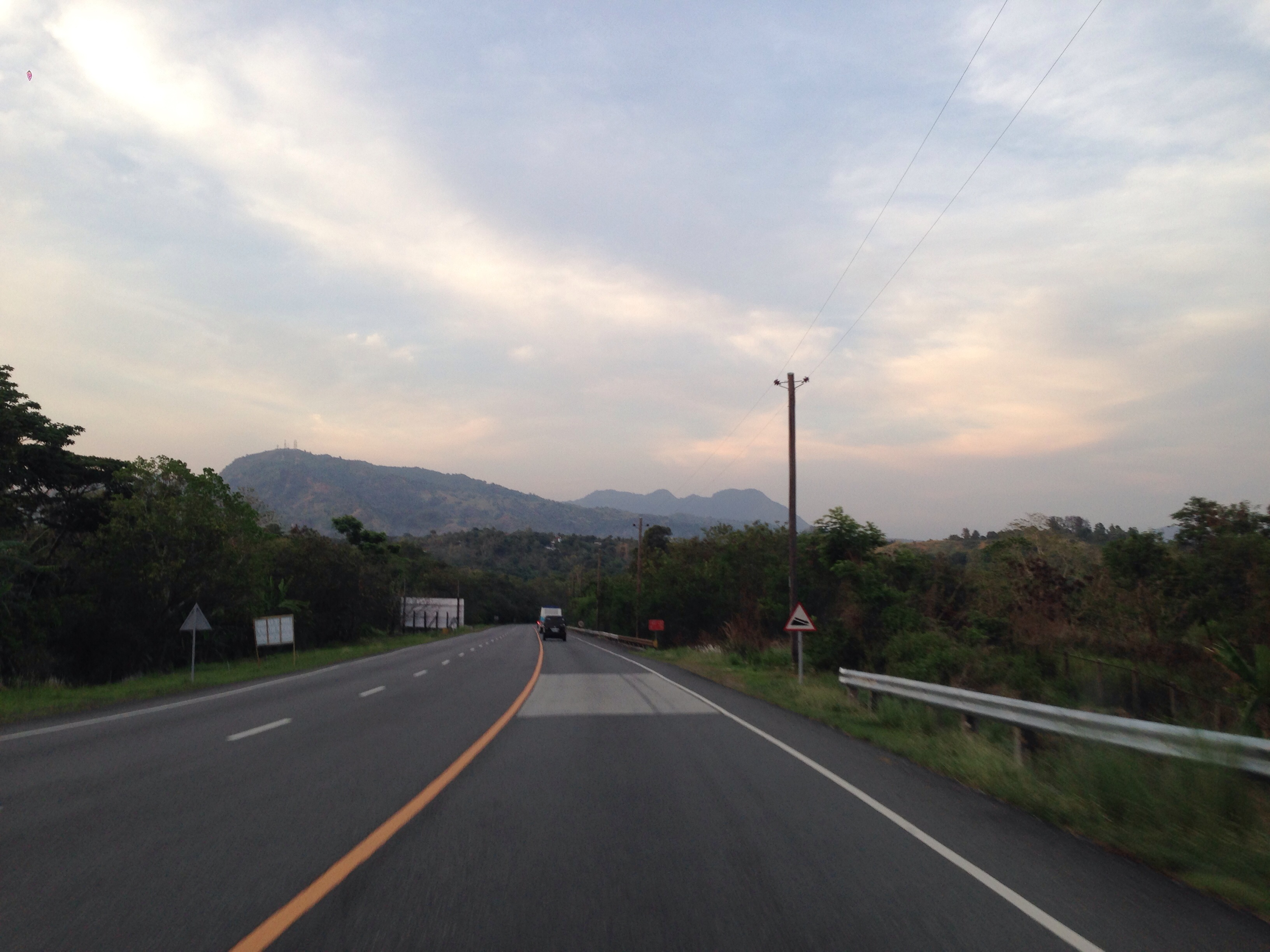 Subic–Tipo Expressway eastbound toward Subic–Clark–Tarlac Expwy (SCTEX) in Hermosa, Bataan.